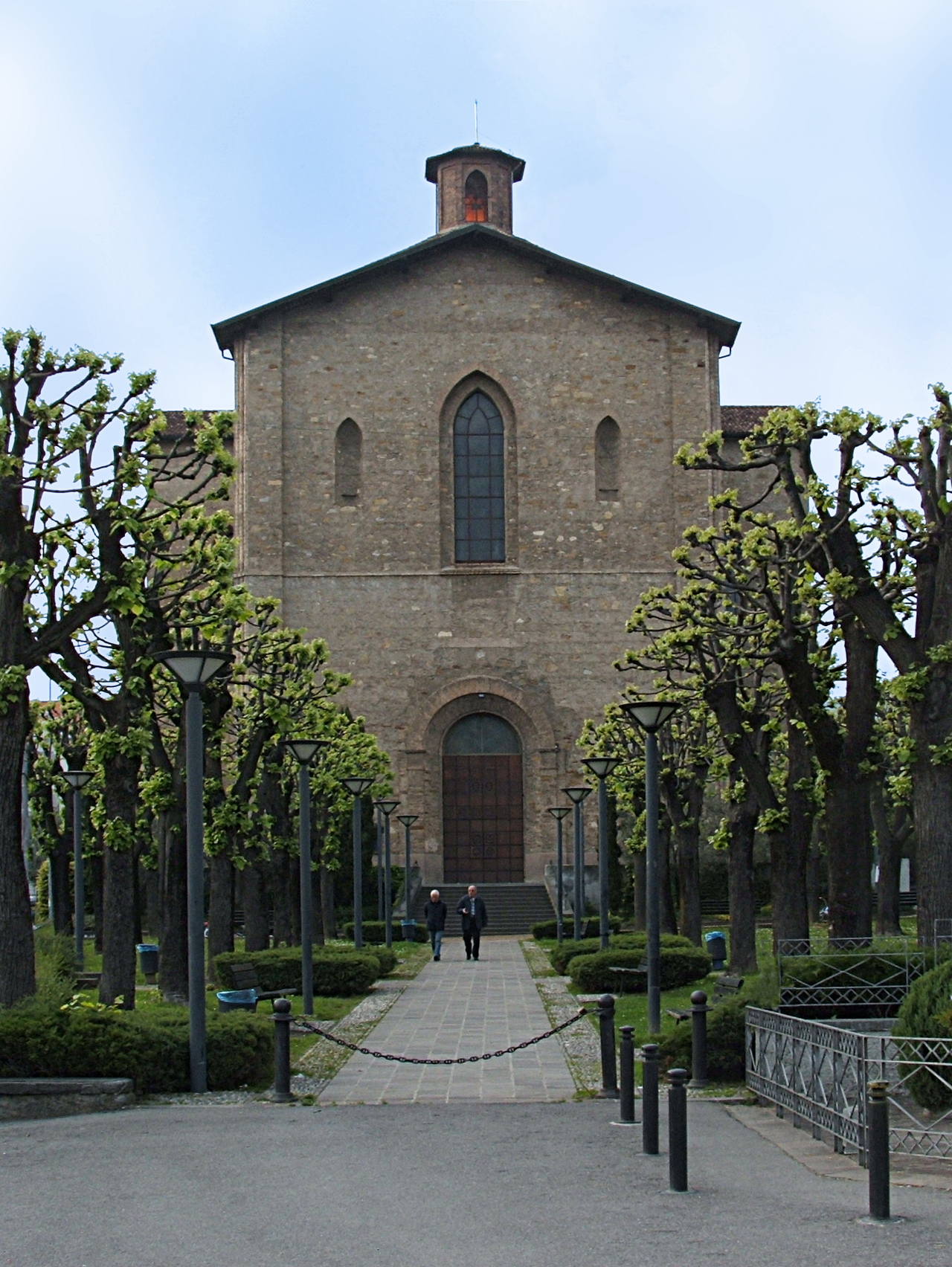 Bergamo, Lombardy, Italy – Saint Lawrence churches in Redona